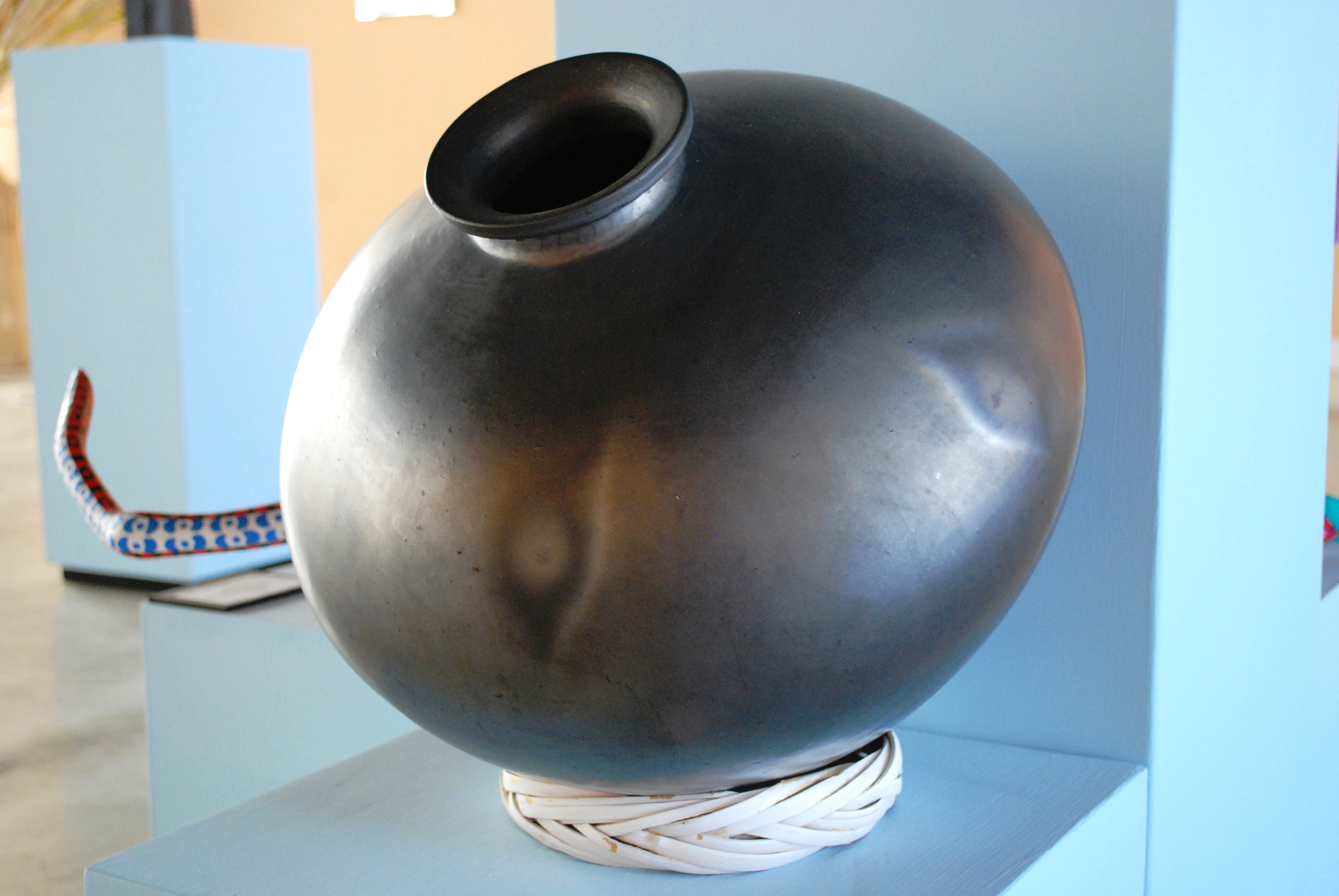 Mezcal jar by Juan Galan of San Bartolo Coyotepec at Museo Estatal de Arte Popular de Oaxaca